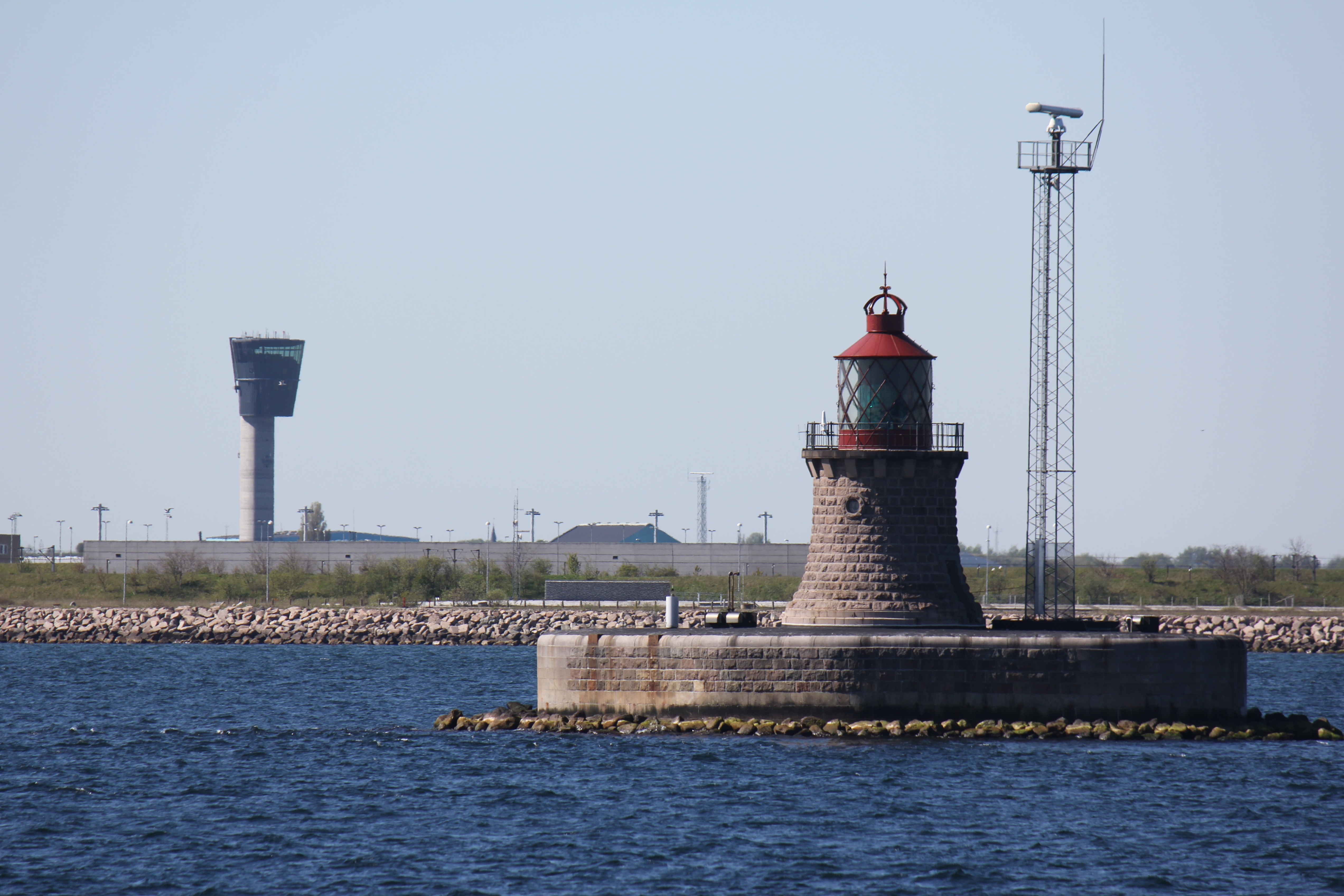 Nordre Røse Lighthouse at the northern part of the Drogden-Sund in the Øresund (with control tower of the Airport Kopenhagen-Kastrup in the background)